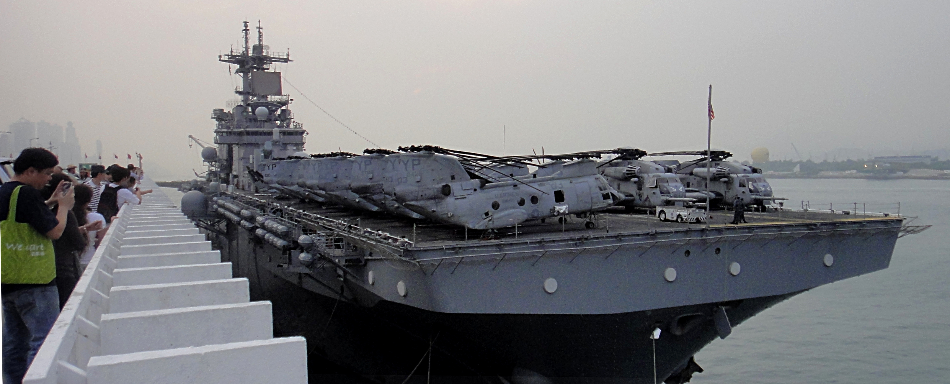 The U.S. Navy amphibious assault ship USS Boxer (LHD-4) upon arrival at Hong Kong, in 2011. On deck are Boeing-Vertol CH-46E Sea Knight and CH-53E Super Stallion helicopters of Marine Medium Helicopter Squadron HMM-163 (Reinforced).[1]